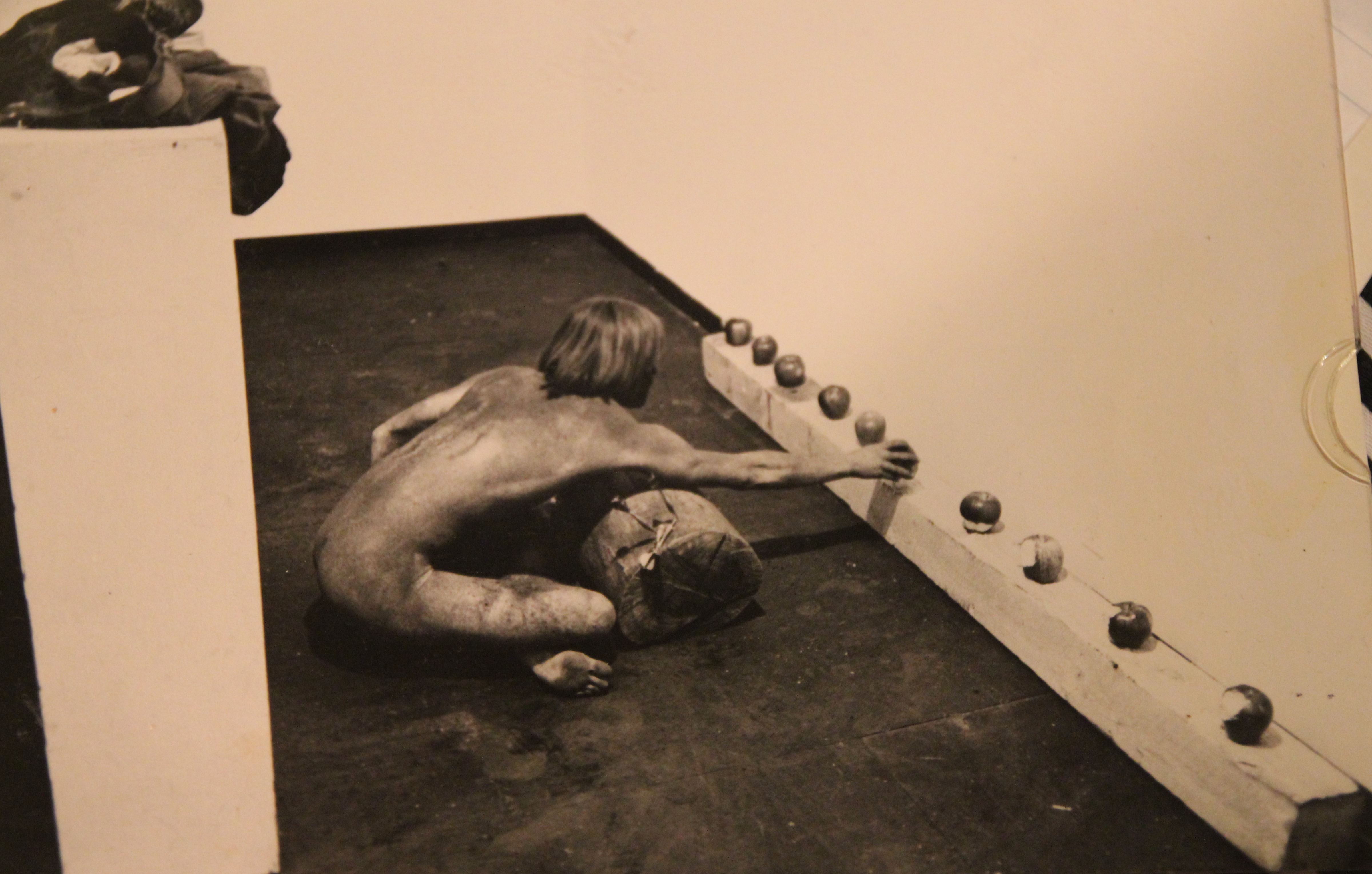 CalArts live performance piece on Ash Wednesday 1972. "Ashes and Apples" A live version of the Zen principal of throwing a dart everywhere in the room except at the target, with bites from several apples as a reward every time the dart misses the dart board. Mark Wilson is completely covered with ashes. Performed behind a screen while drumming on a wooden log. Photo originally taken by Michael Pliskin.